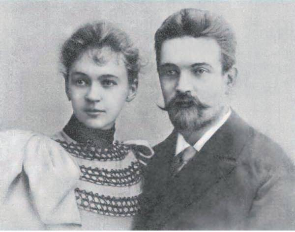 Parents of Lyubov Orlova, the most famous Soviet actress and singer